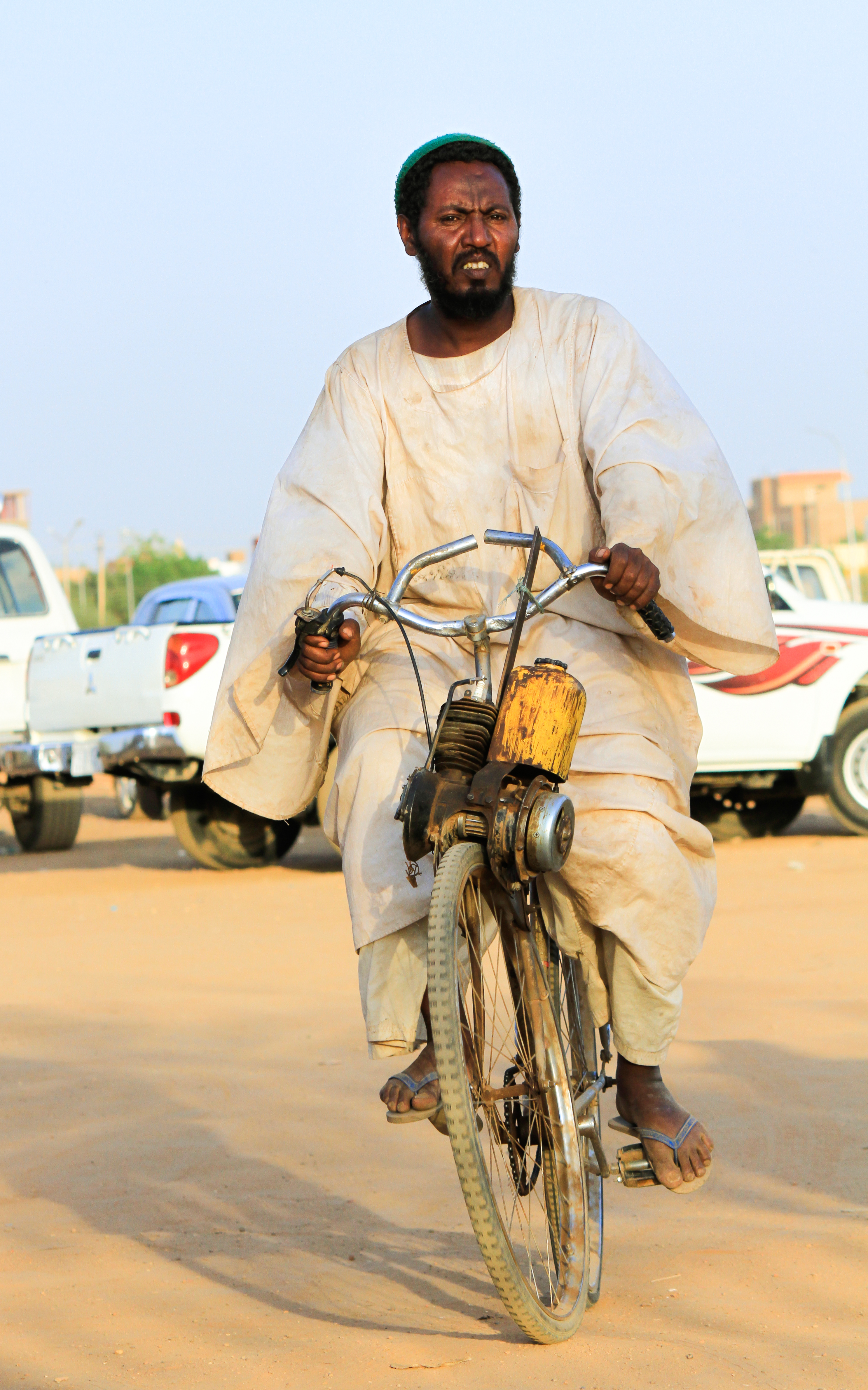 A man on a bicycle in Alzikr alsofi, which is held every Friday in the tombs of Sheikh Hamad El Nile in Omdurman